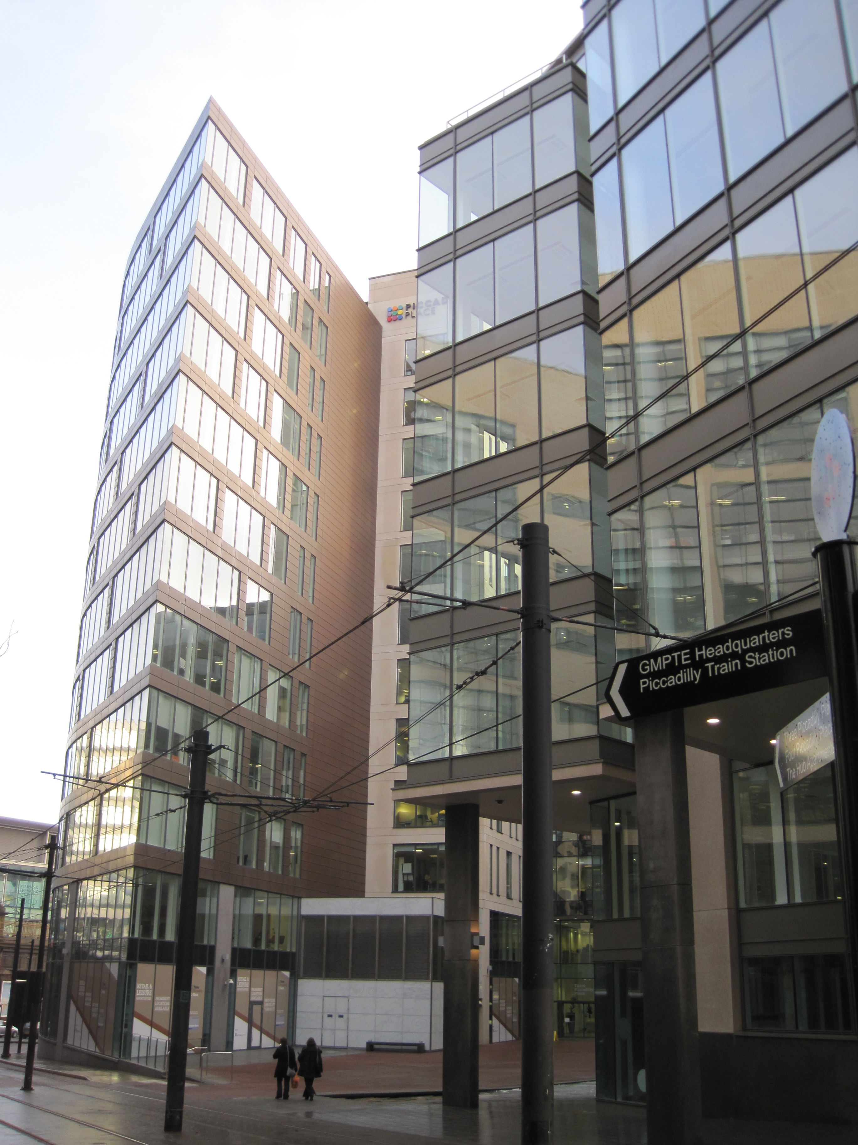 Three Piccadilly Place, Manchester